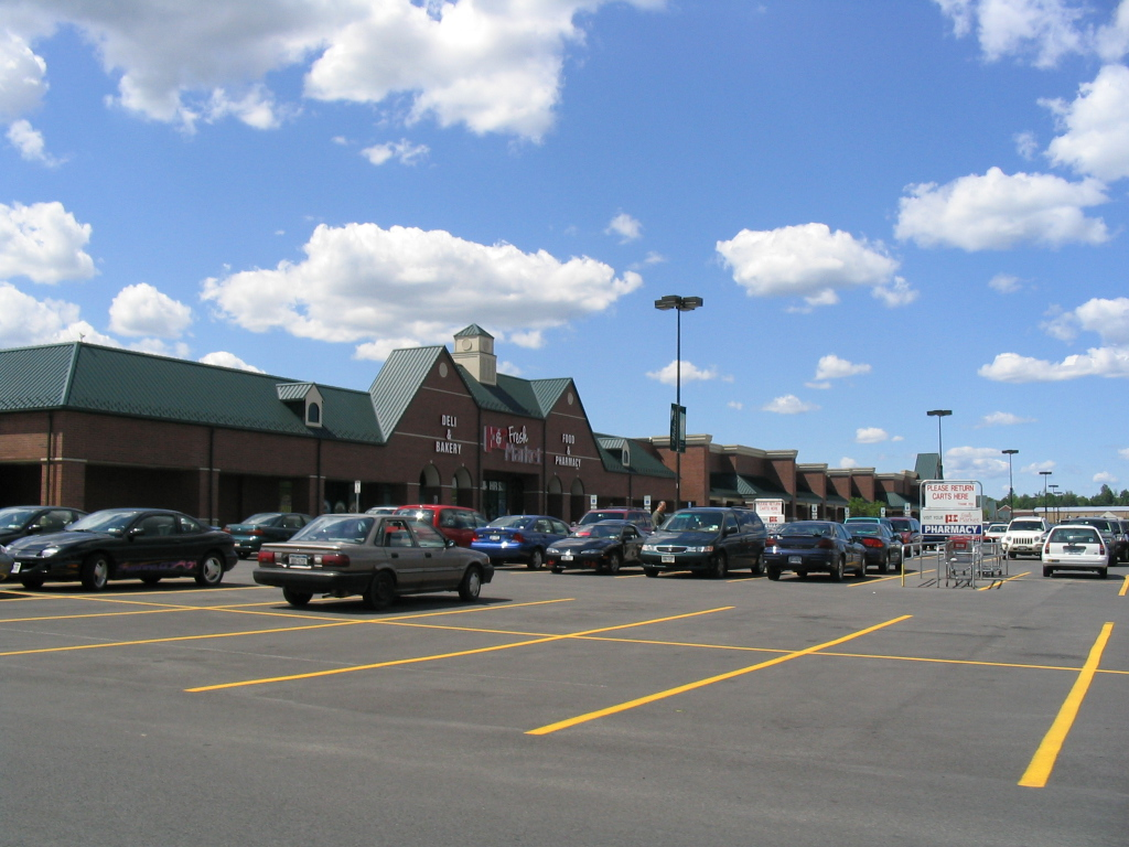 photo of the Fayetteville Towne Center P&C Supermarket in the Town of Manlius, NY, taken by me on June 20, 2004